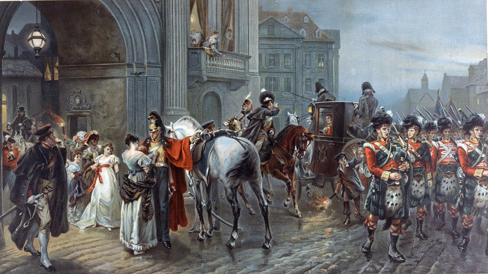 Summoned to Waterloo: Brussels, dawn of June 16, 1815 by Robert Alexander Hillingford -- depicts revellers leaving the Duchess of Richmond's ball as soldiers march out of Brussels to war